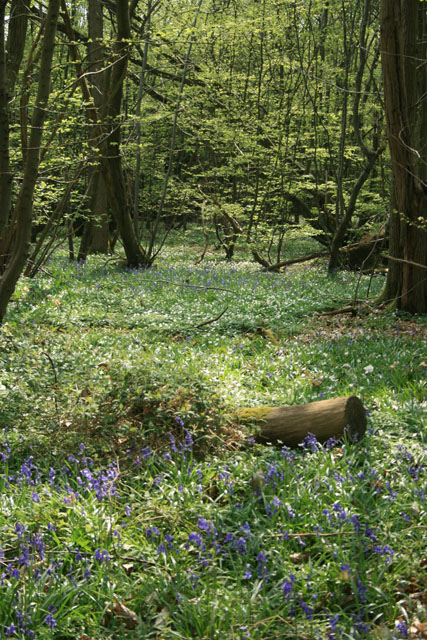 Hoad's Wood, Etchden Road, Great Chart, Kent, Great Britain